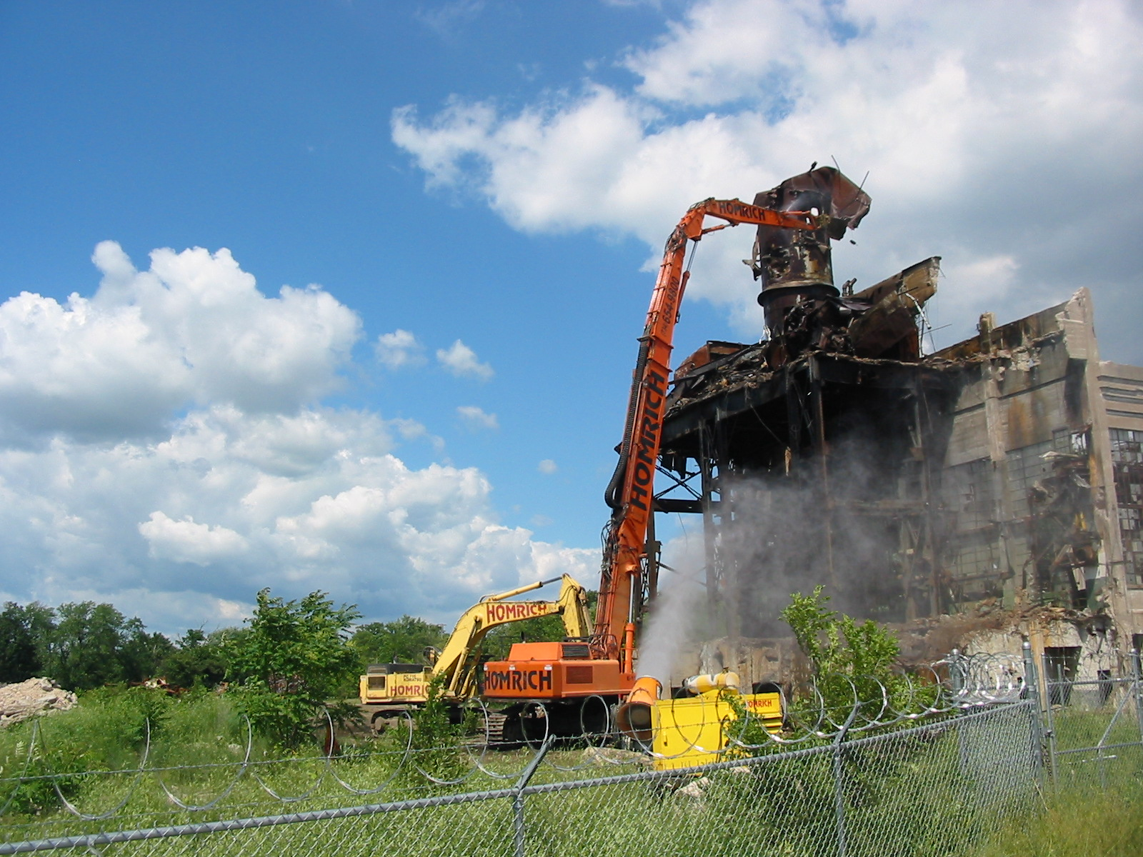 The sole remaining Allied Paper Bryant Mill building, the power house, was demolished in the summer of 2008. The contractor was Homrich, who had demolished all other mill buildings in 2004/05. The power house demolition took 3 months.